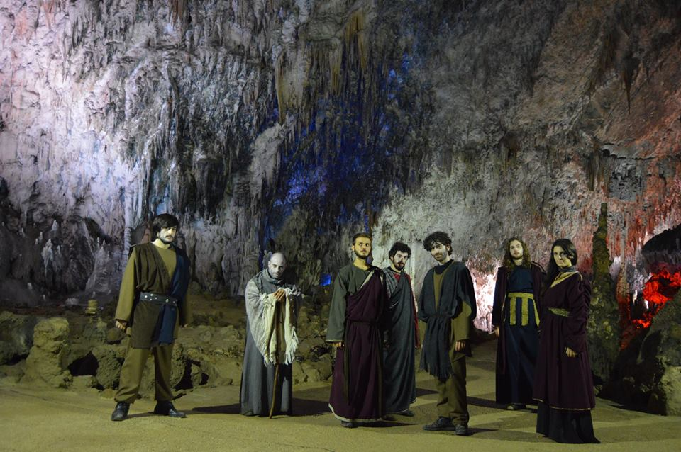 Foto dello spettacolo teatrale Ulisse: il Viaggio nell'Ade